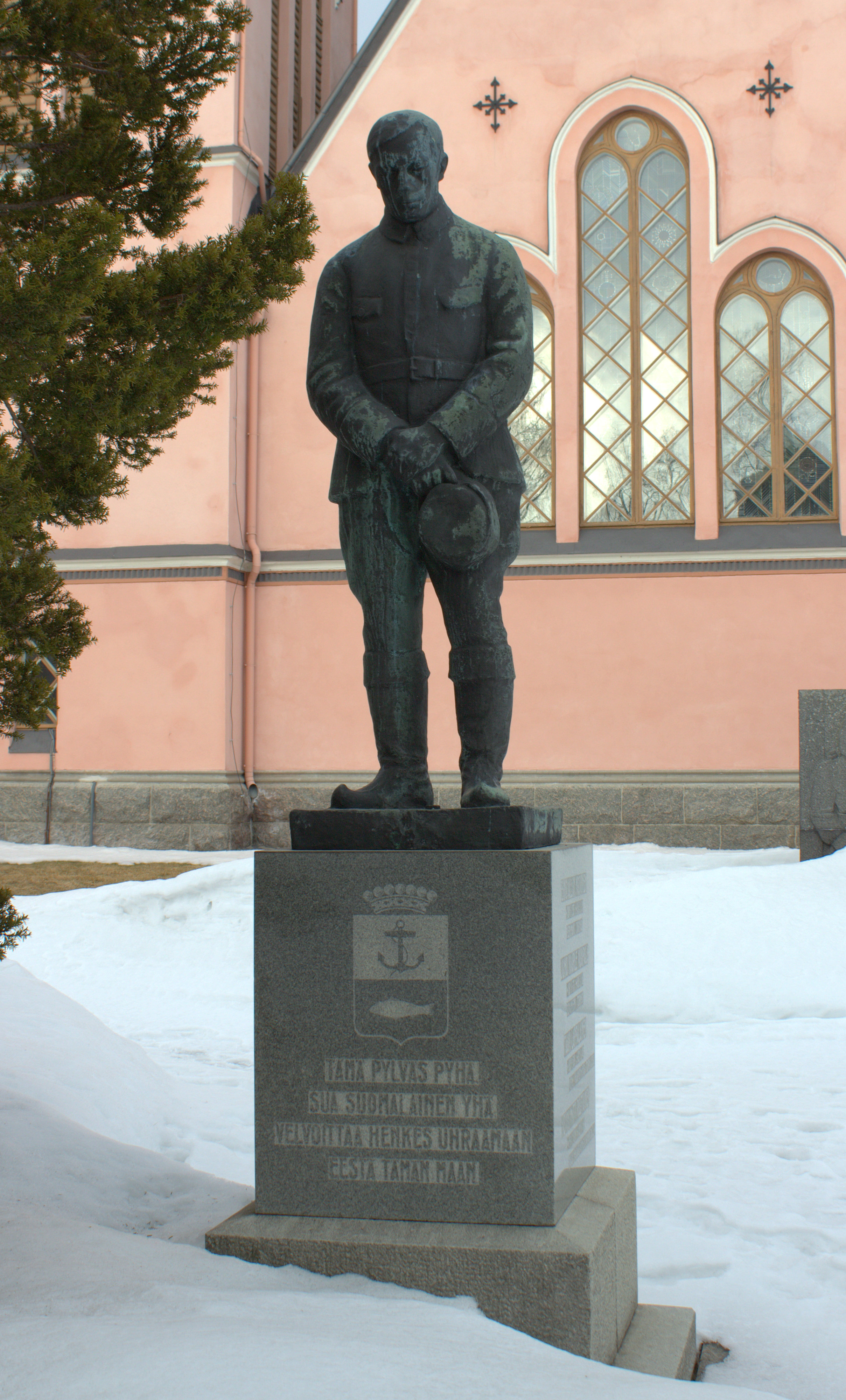 The monument Of the civil war of Finland, "Praying Soldier", by Evert Porila, 1921. The bronze statue stands by the Kemi church.